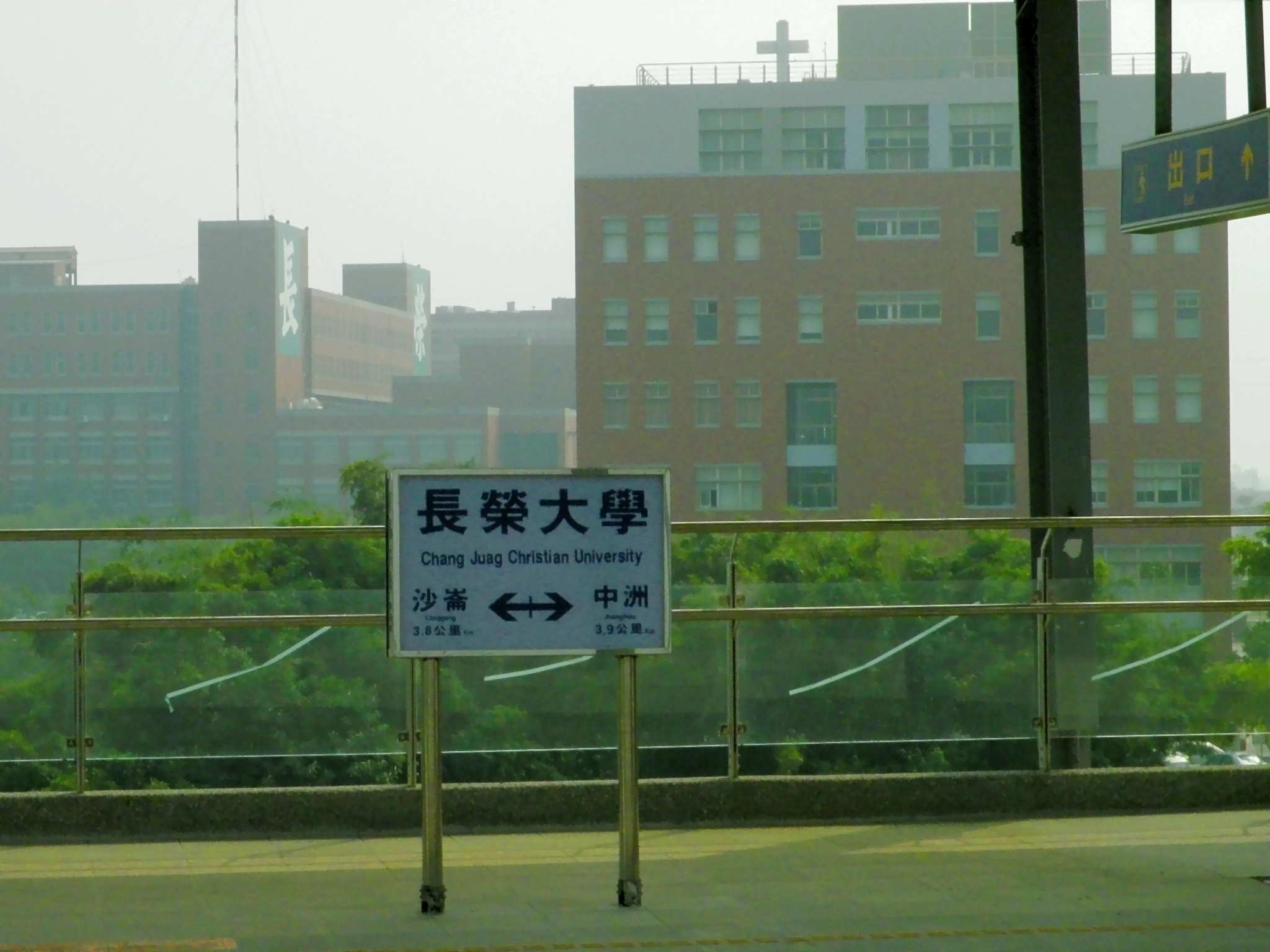 TRA Chang Jung Christian University Station, Tainan, Taiwan.